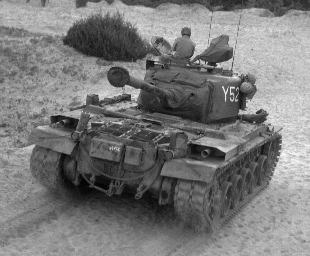 USMC M-46 Patton Medium Tank just landed by an LSU to support Marine infantry in Korea, 8 Jul 1952.